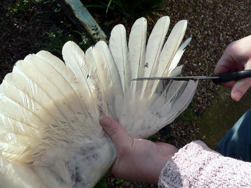 A domestic chicken having its wing clipped to prevent flying away. This is a commonly used and entirely painless procedure.